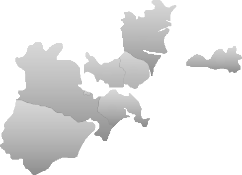 Map of Shantou in Guangdong province.